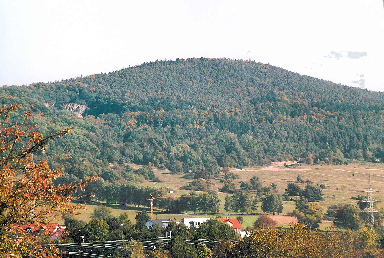 The Stengerts, a hill in the Spessart mountains in the southeast of Aschaffenburg, Germany